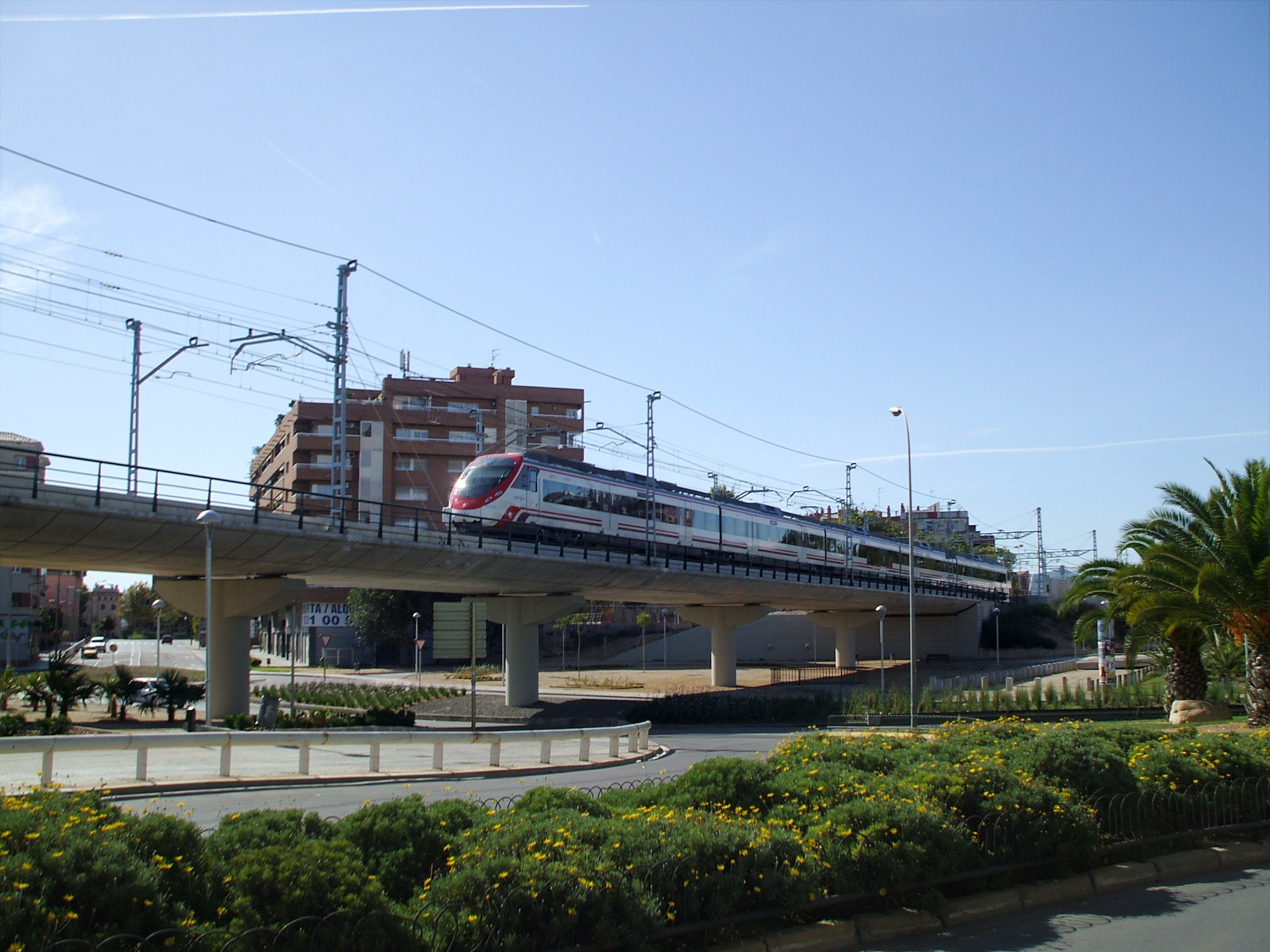 New rail bridge in Cornella de Llobregat